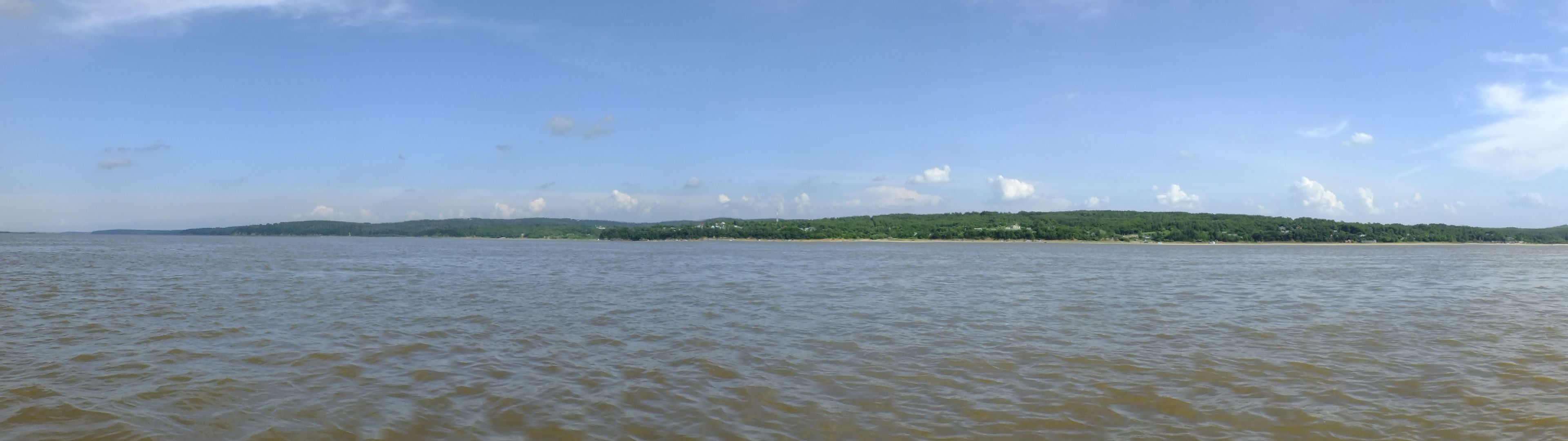 Khabarovsk Krai